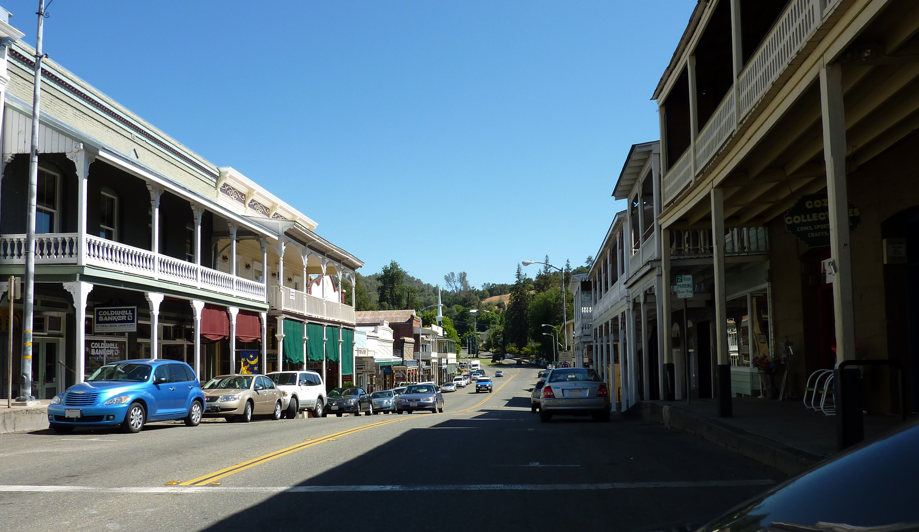 Sutter Creek, California, USA.